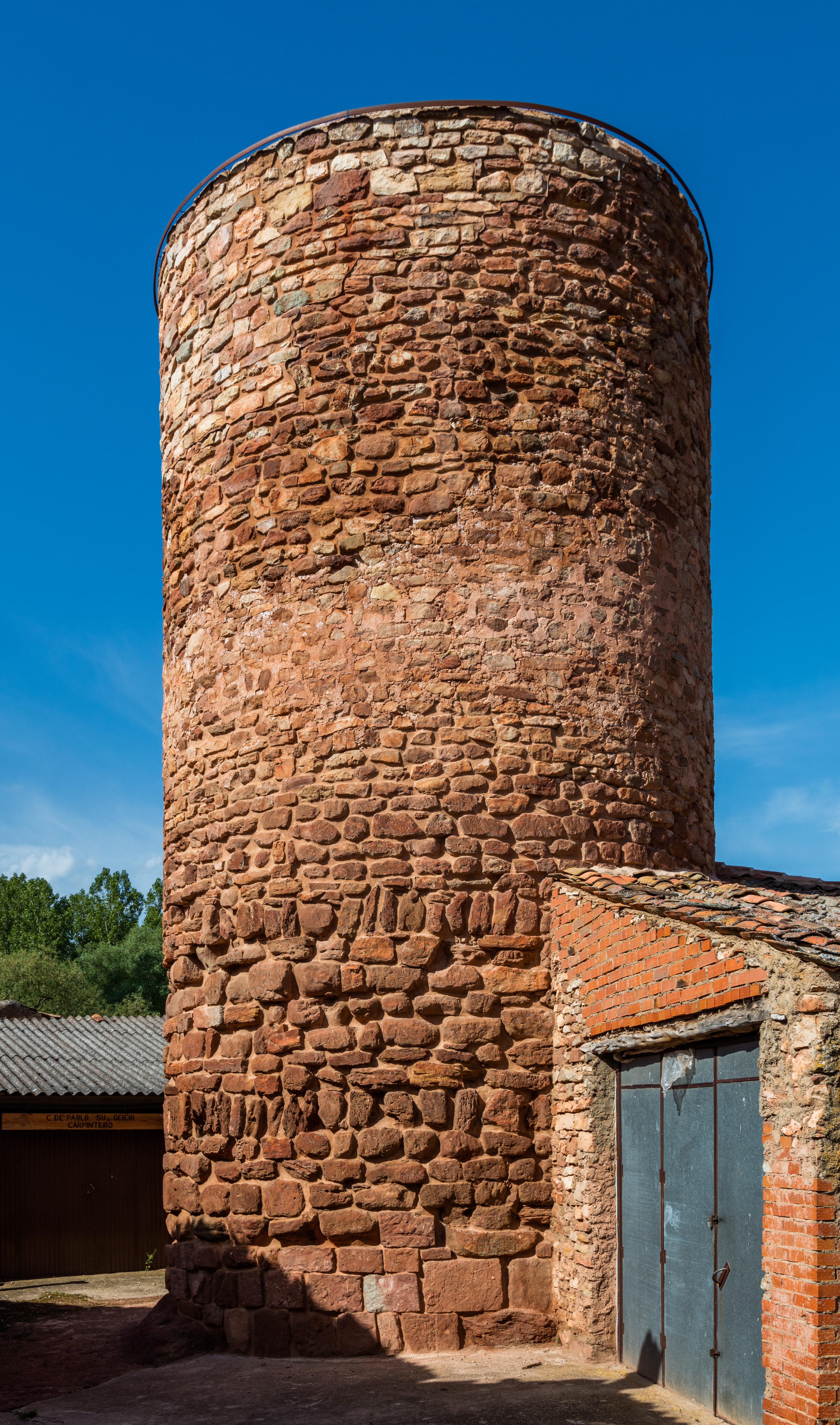 Watchtower, Liceras, Soria, Spain